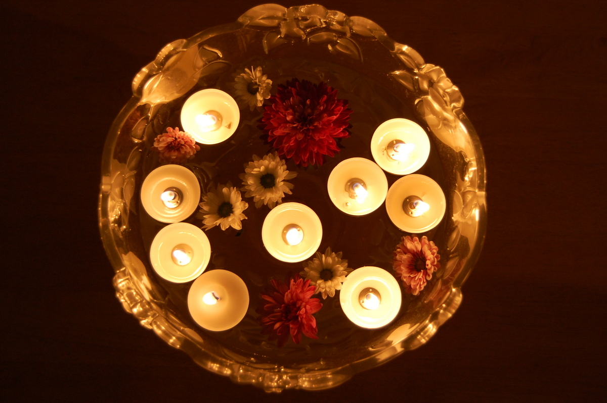 Floating candles on Diwali day.